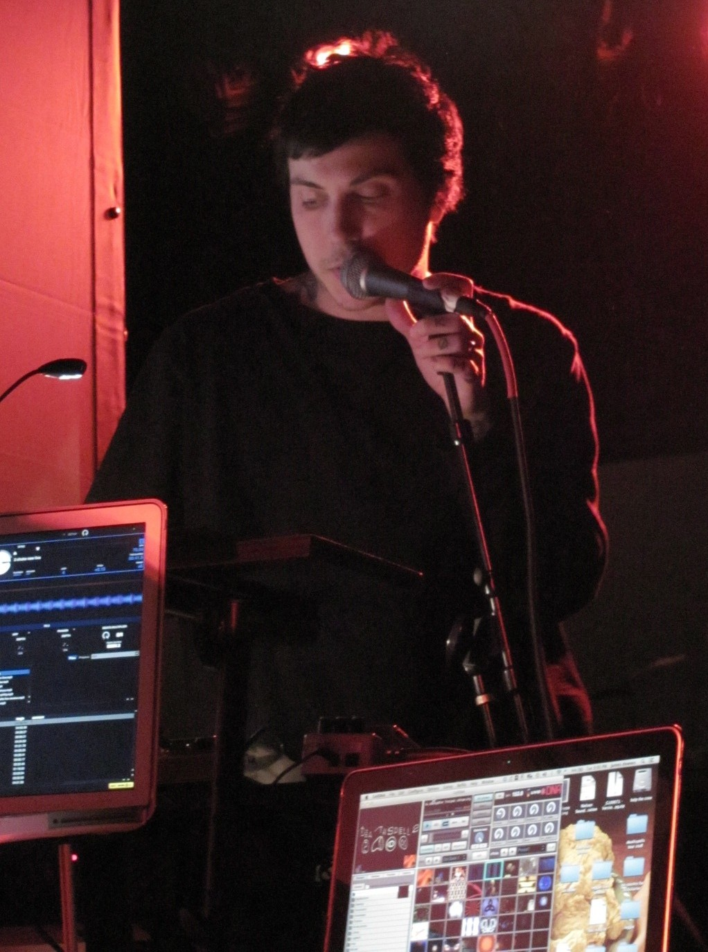 Iero at the Knitting Factory, Brooklyn